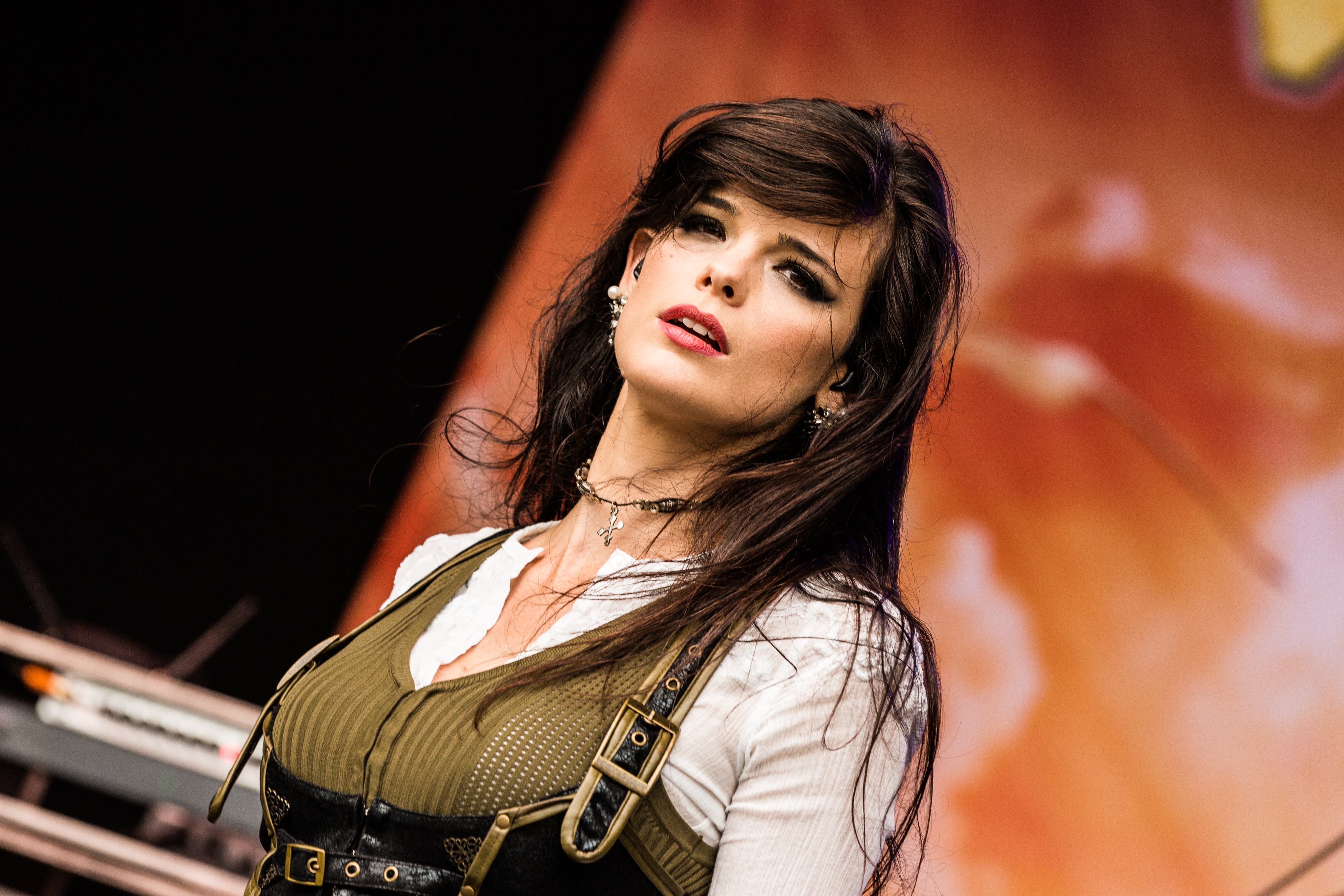 The Austrian symphonic metal band Visions of Atlantis at the Metal Frenzy 2017 in Gardelegen/Germany.